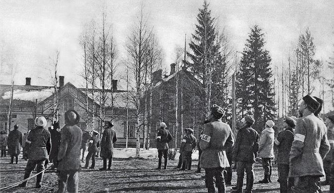 1918 Finnish Civil War: White Guard soldiers looking at a Red aeroplane by the Vilppula railway station.